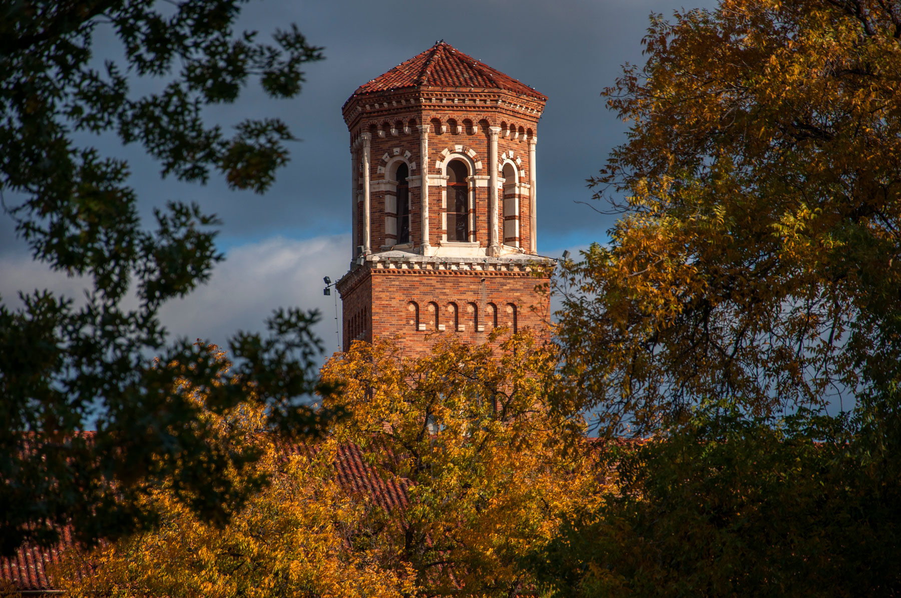 The Hardin Tower is part of the oldest building on campus, the Hardin Administration building. The Hardin Tower can be seen from almost every point of campus. Inside is a carillon that chimes every quarter of the hour.